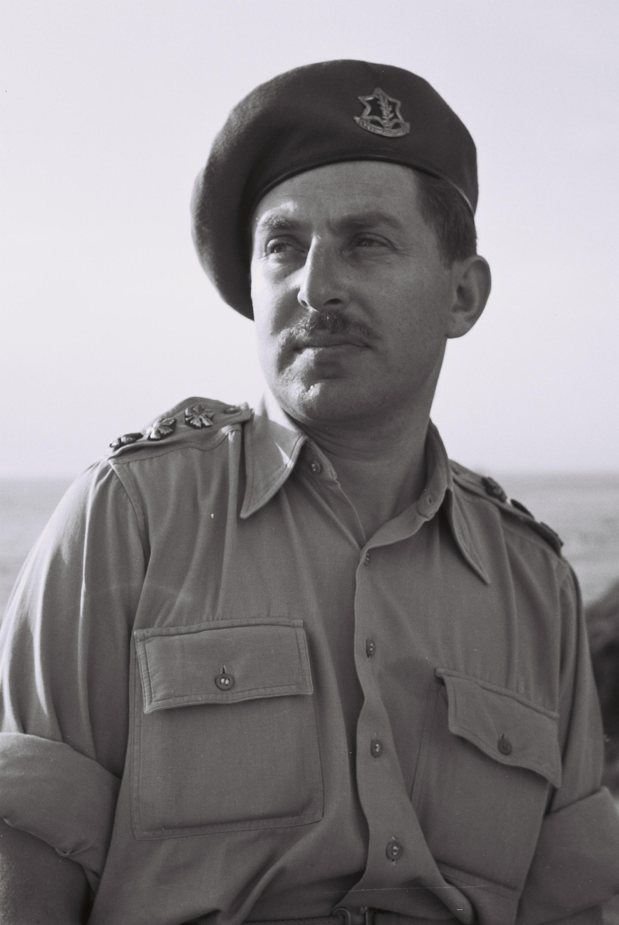 Colonel Chaim Herzog, military attache in Washington